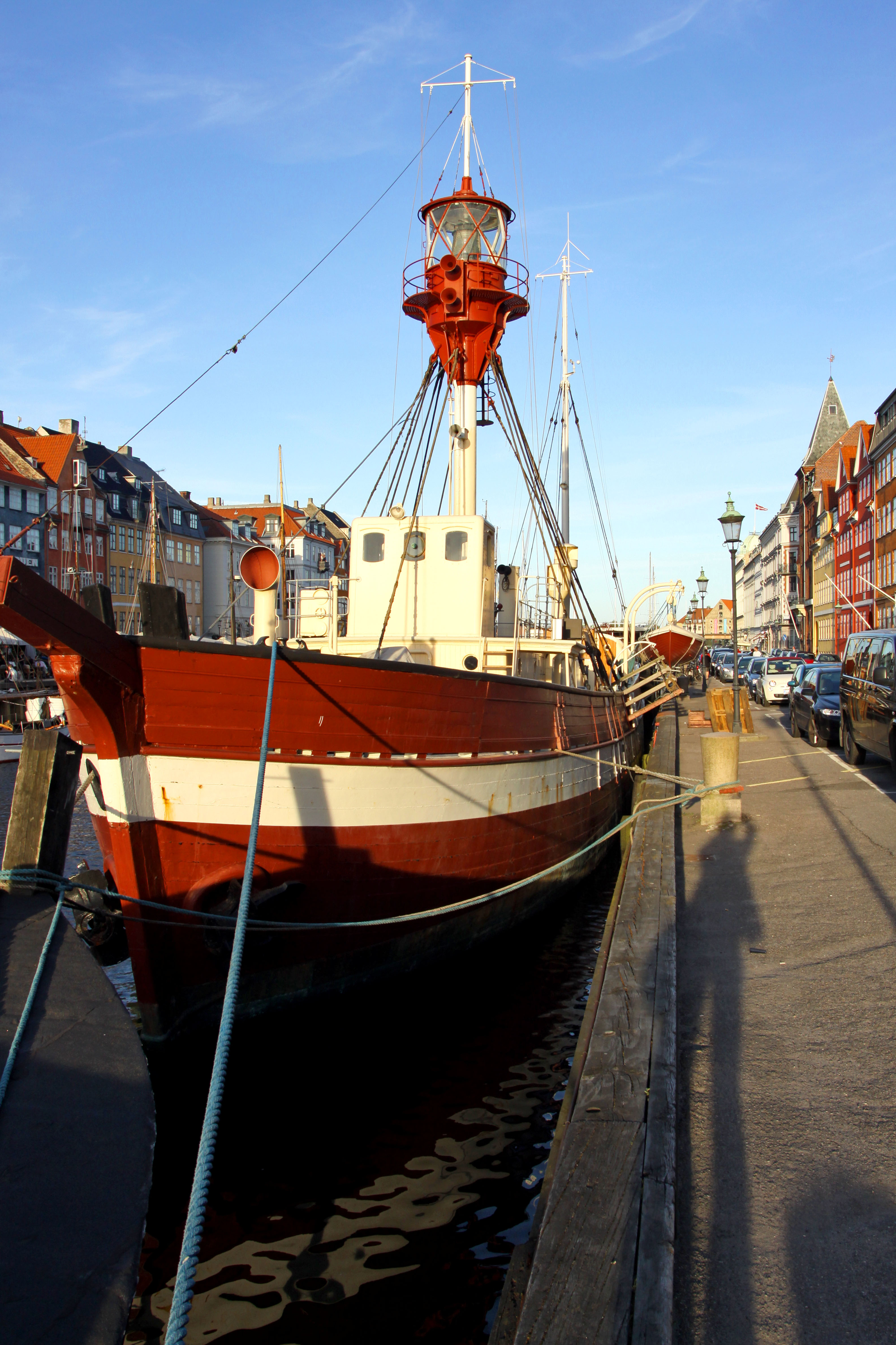 Lightvessel XVII Gedser Rev, a decommissioned Lightvessel now ow owned by the National Museum of Denmark and operated as a museum ship in the Nyhavn canal in Copenhagen